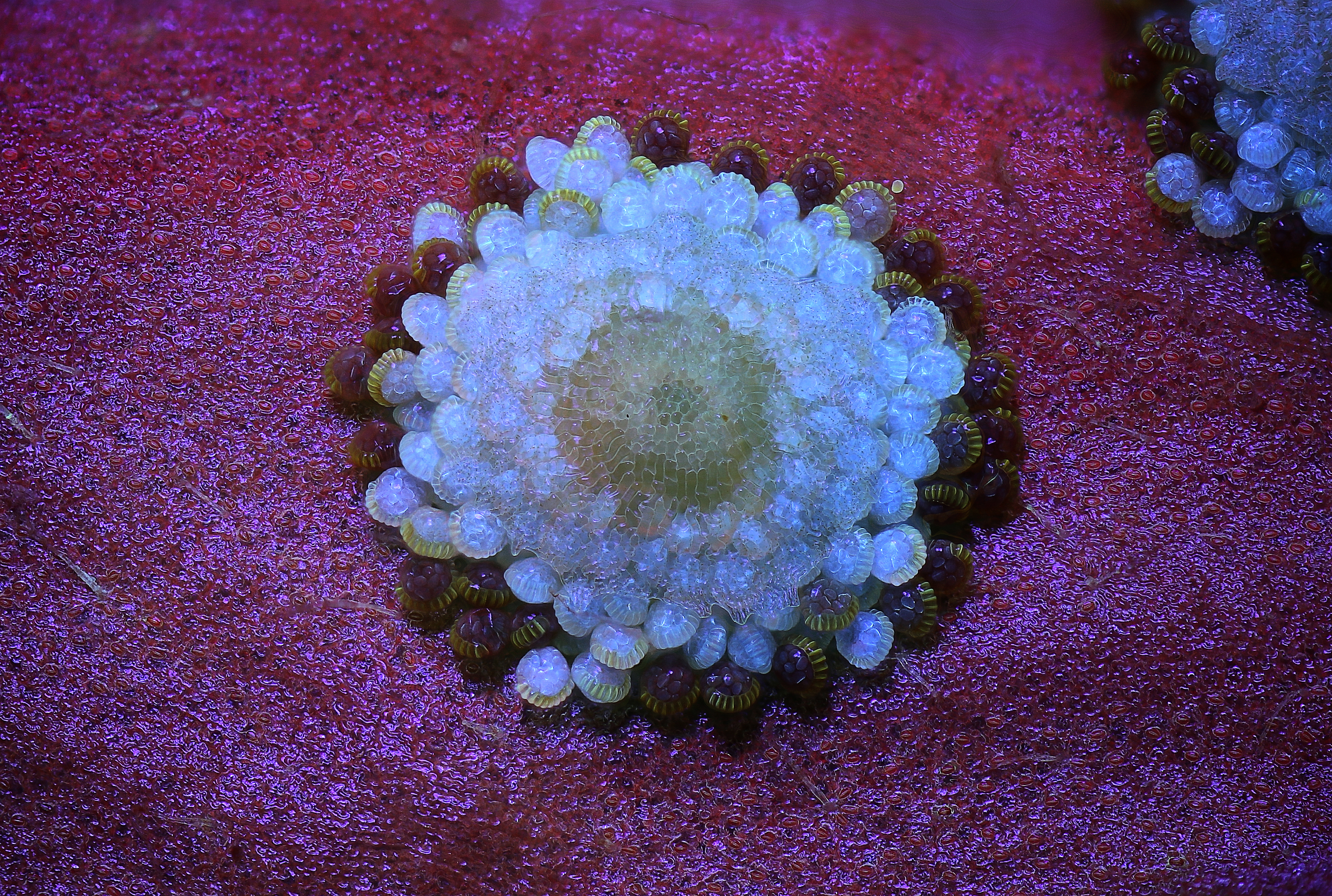 Fern Sorus - Cyrtomium falcatum. Soruses diameter is about 1,2 mm. Epiluminescence microscopy, lighting - 365 nm. The reddish “background” is chlorophyll fluorescence.